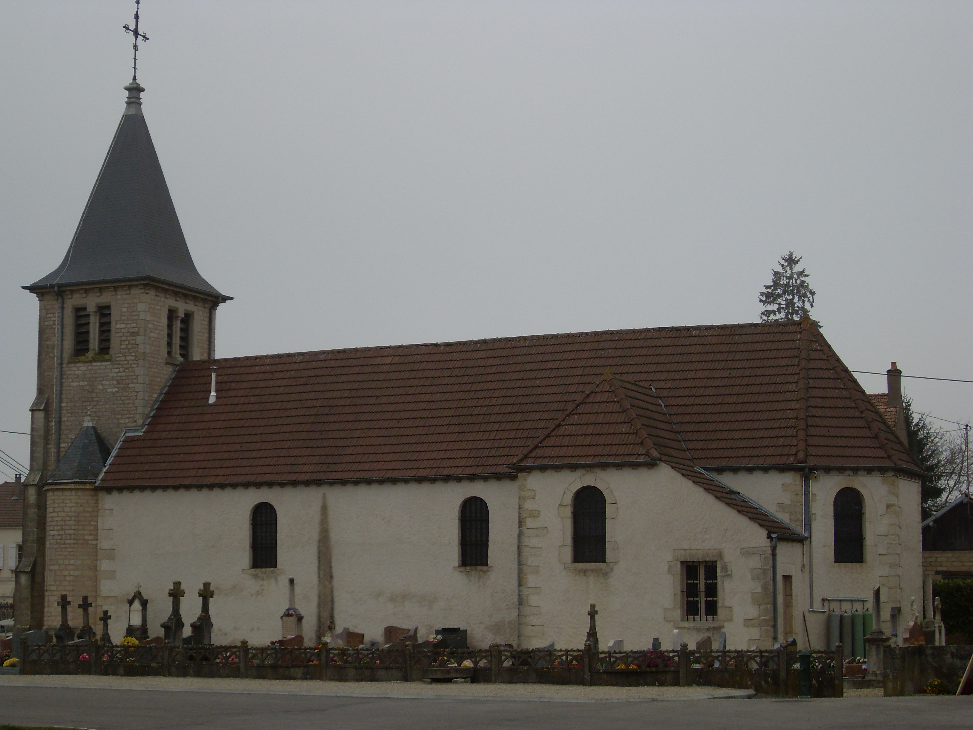 Church of Chemin